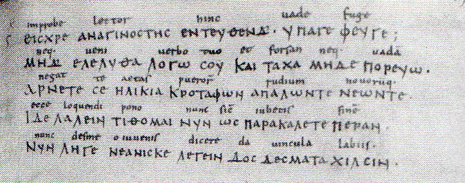 Greek Epigram ΕΙCXΡΕ ΑΝΑΓΙΝΟCΤΗC with Latin interlinear gloss, MS Laon, Bibl. munic. 444, fol. 298r; attributed by Ludwig Traube to Martinus Hibernensis and restituted by Michael W. Herren to Johannes Scotus (Eriugena); reproduced from Michael W. Herren, Iohannis Scotti Eriugenae carmina, Dublin: Dublin Institute for Advanced Studies, 1993 (= Scriptores Latini Hiberniae, 12), Plate III